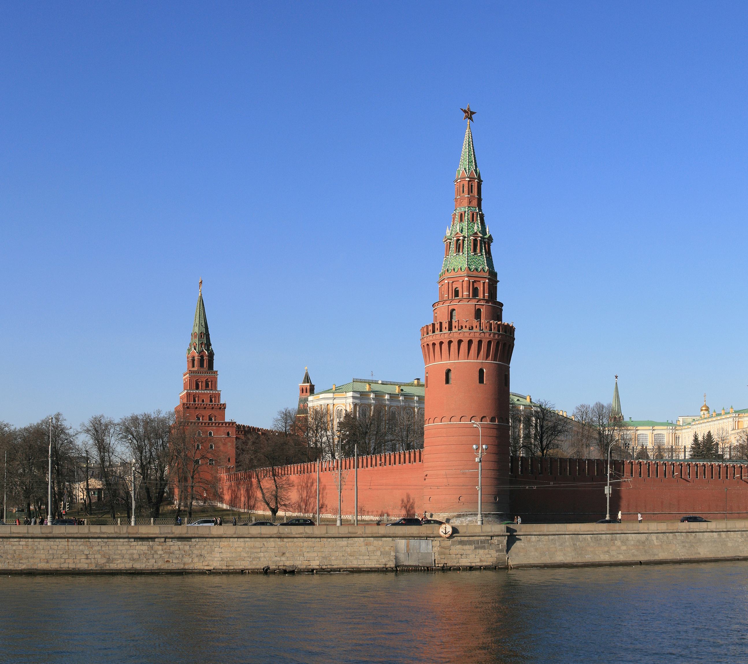 Panoramic view of Moscow Kremlin from Sofiyskaya Embankment